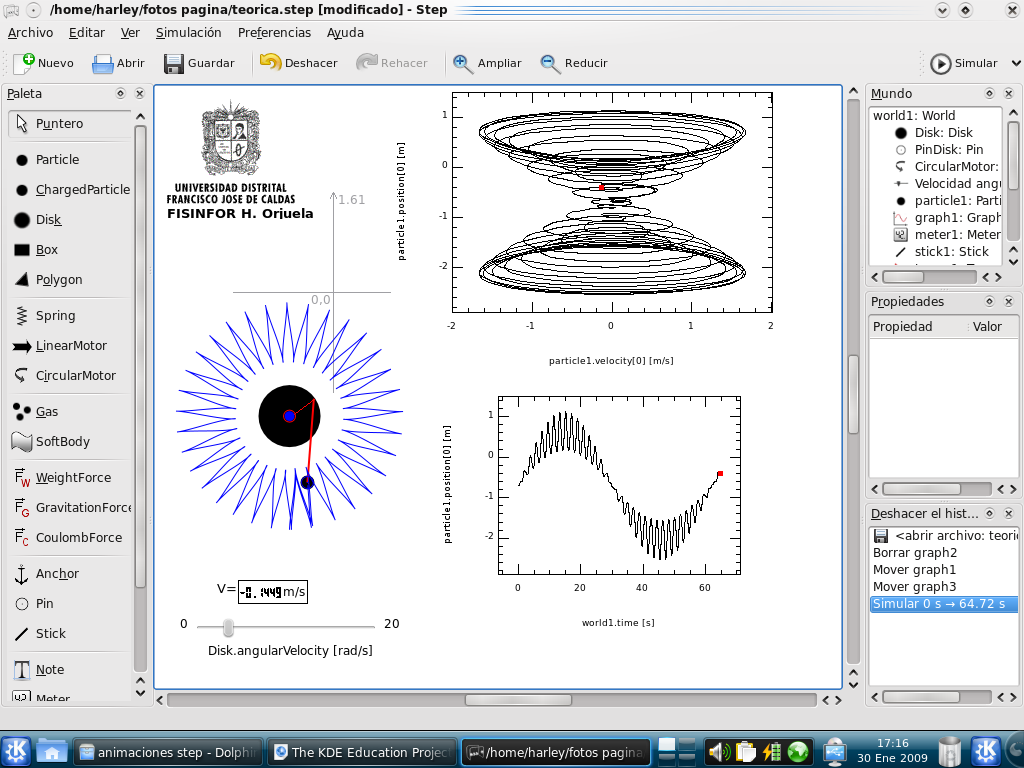 GNU General Public License